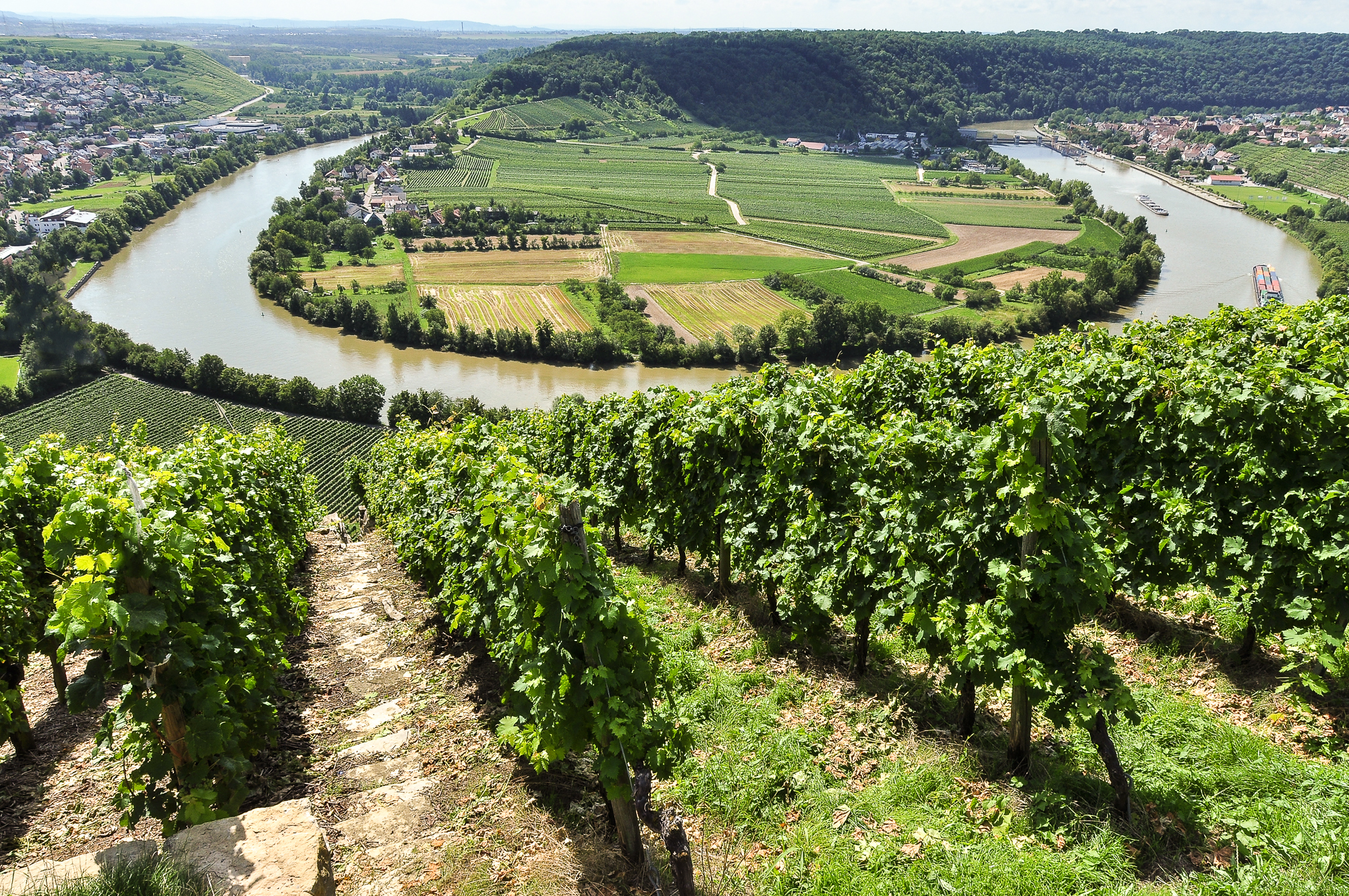 The famous vista from Käsberg: the Neckar U-turn. On the left side the community of Mundelsheim, on the right Hessigheim.